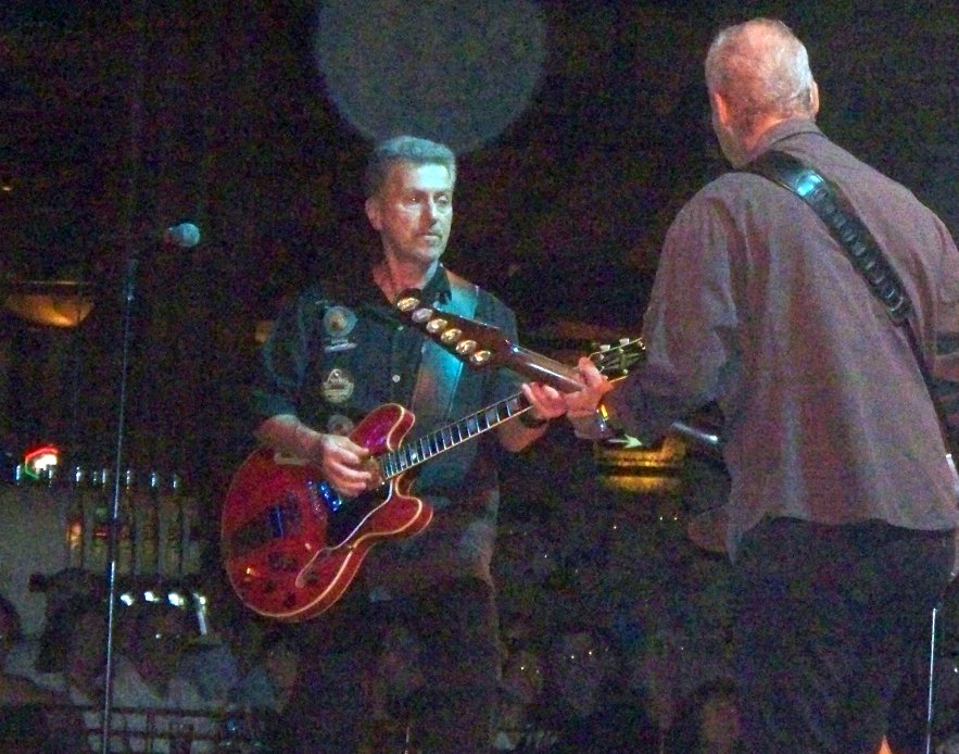 Johnny Rivers-Mohegan Sun Casino-June 18, 2011 1960s-70s rock/blues singer and guitarist Johnny Rivers performed in Uncasville, CT. June 18, 2011.